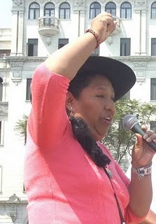 Event meeting in front of Congress Lima